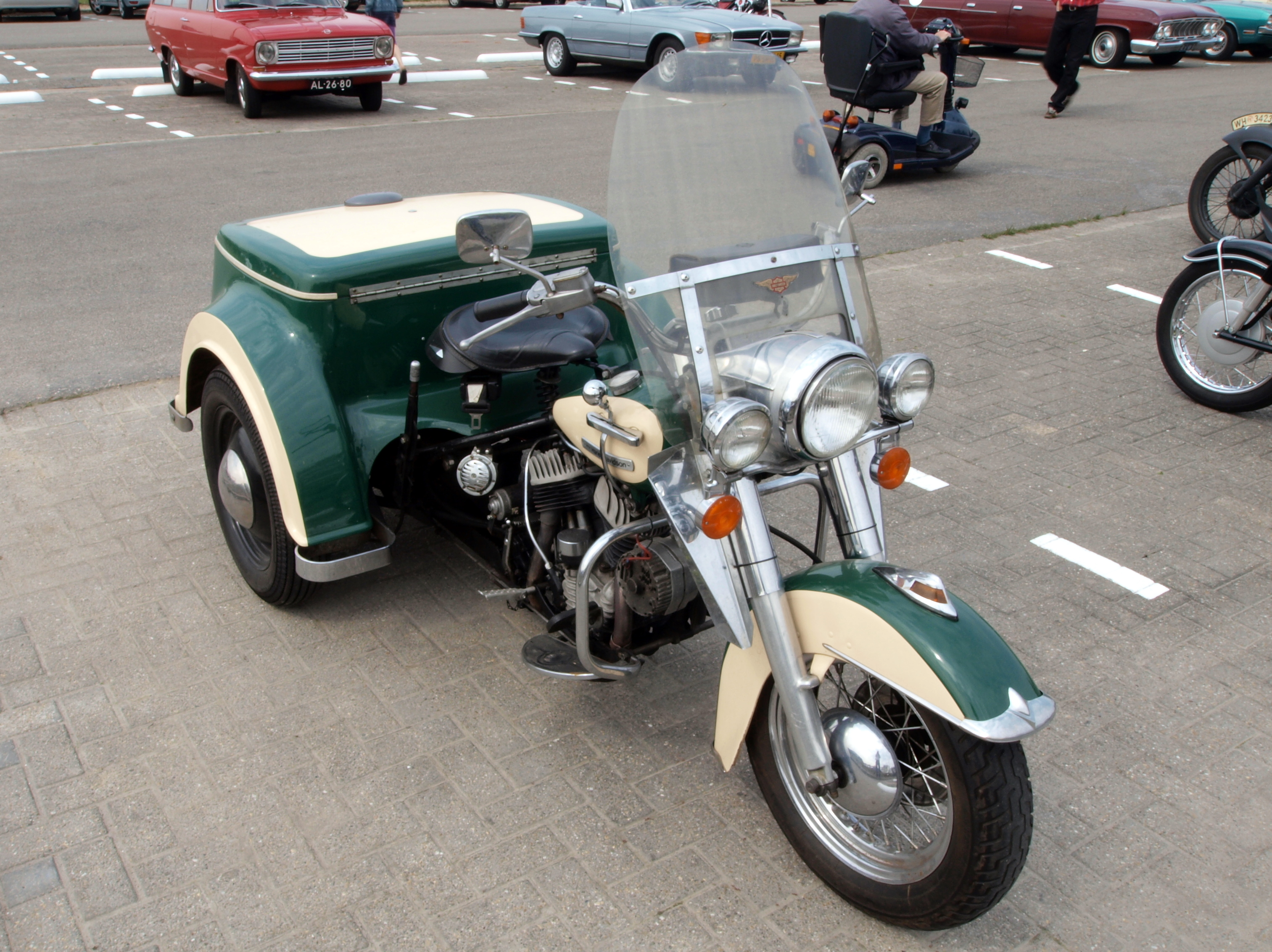 Cars and motorcycles photographed at the Voorschotense Oldtimer Vereniging Show, Valkenburgse meer, The Netherlands. OLYMPUS DIGITAL CAMERA